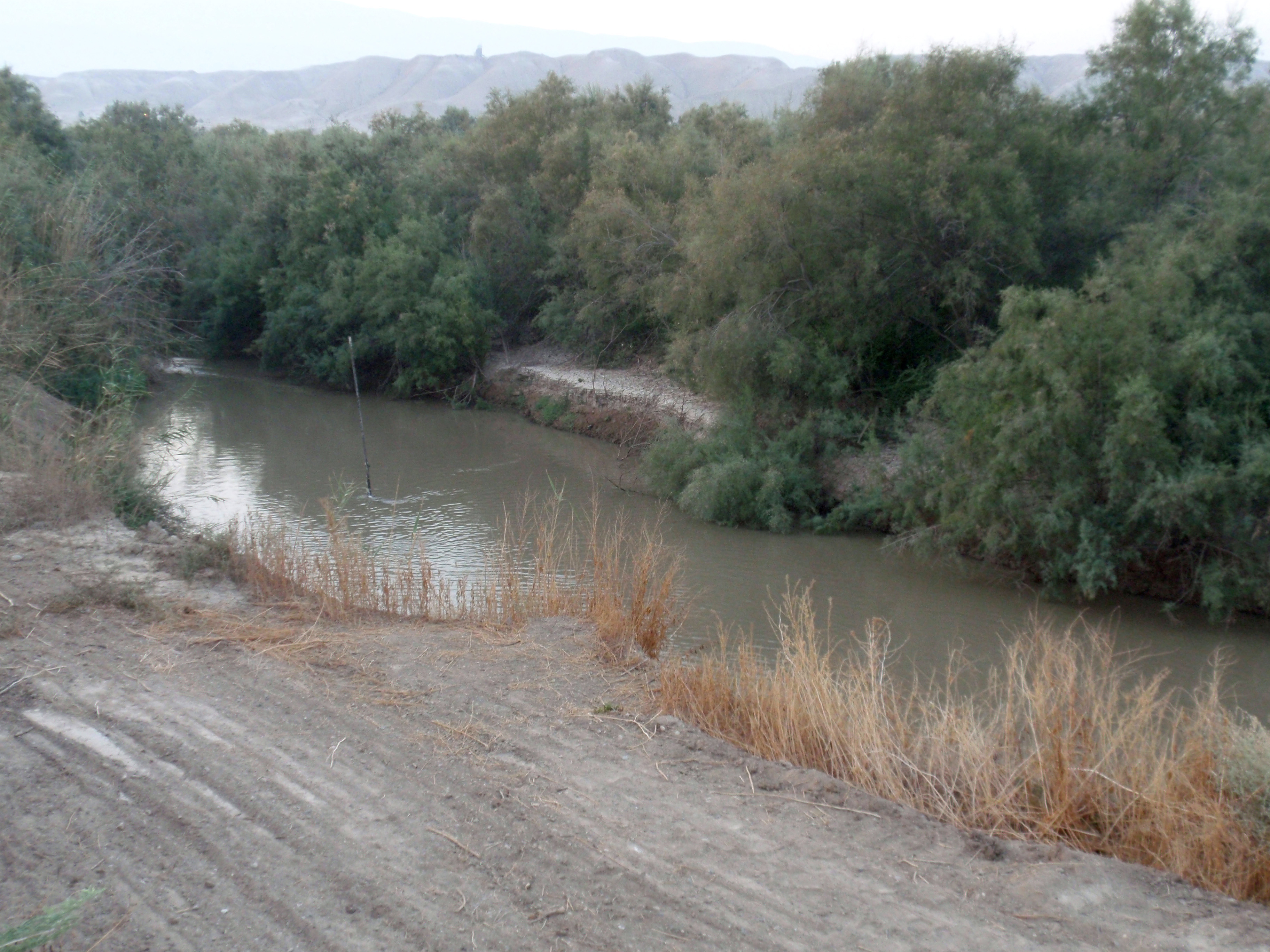 The State of Israel's Eastern border with the Kingdom of Jordan, in the Jordan Rift Valley area, passes through the Jordan River. A pole embedded in the river bed marks the point of the physical border between the two countries.